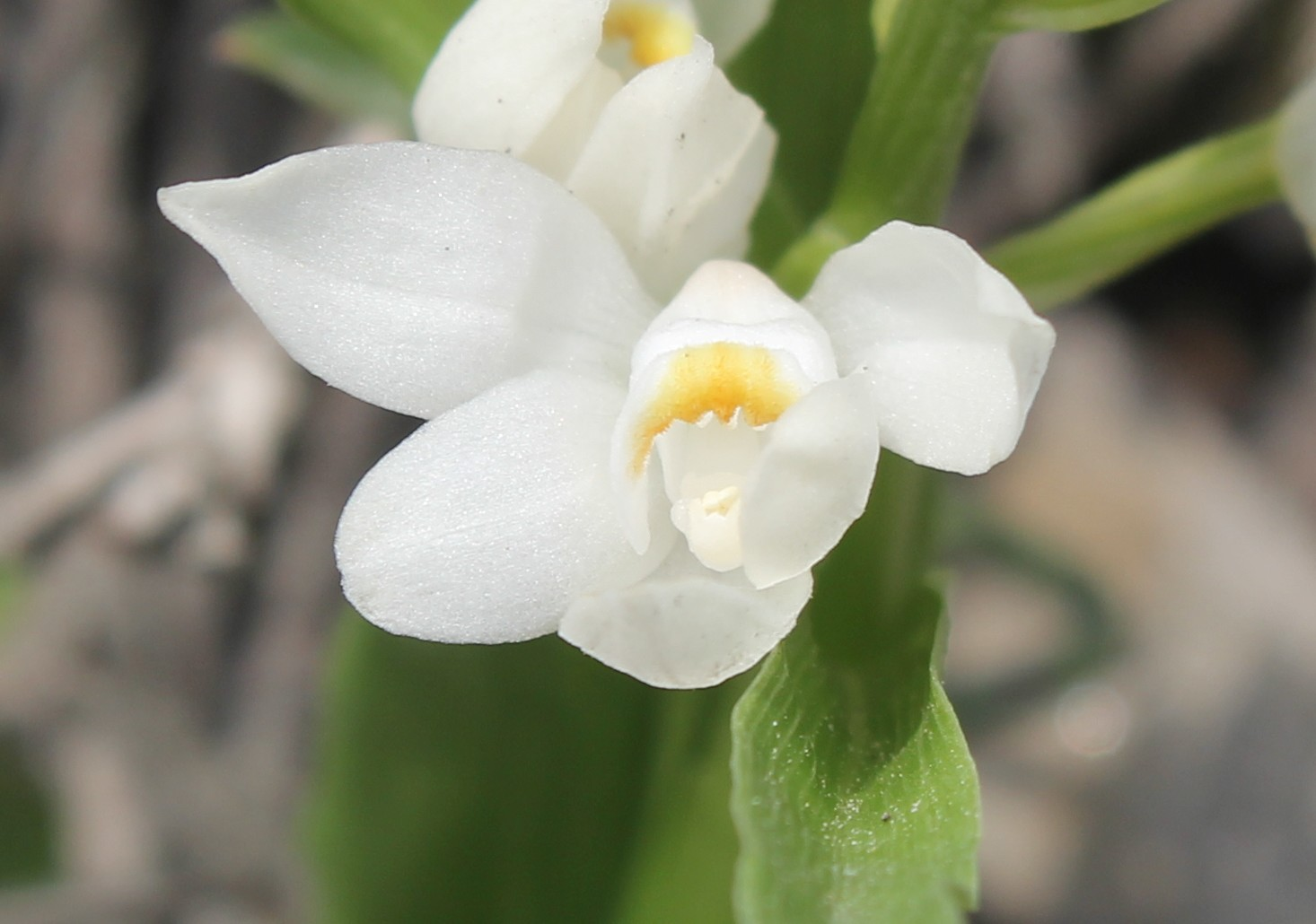 Cephalanthera longifolia labellum